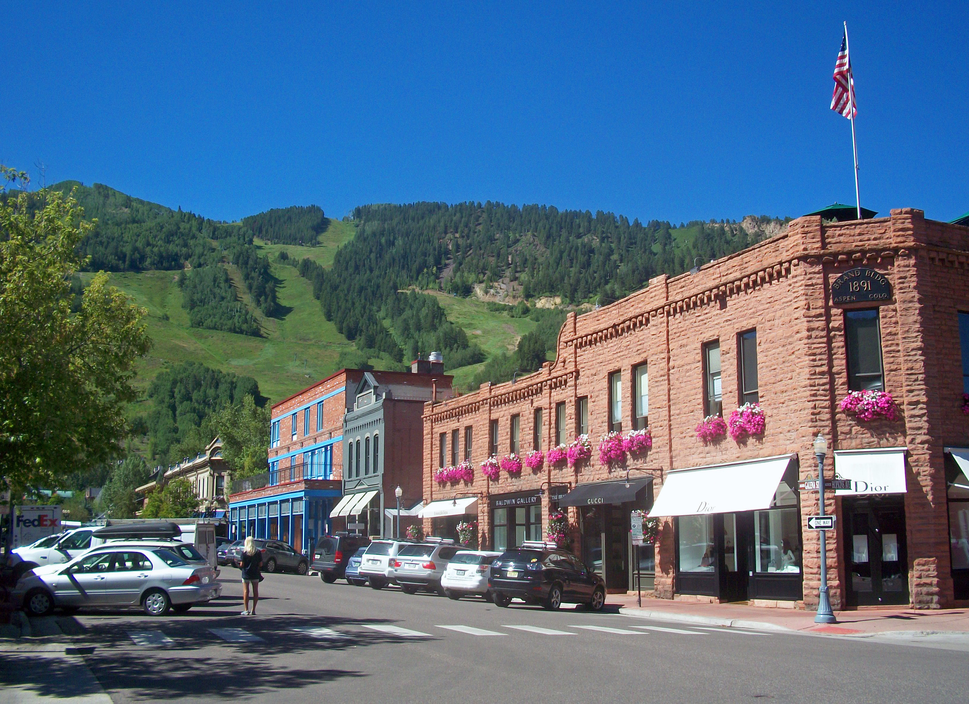 View past Brand Building on Galena Street in Aspen, CO, USA, to Aspen Mountain ski slopes in summertime